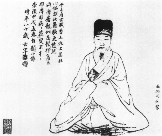 Dong_Qichang